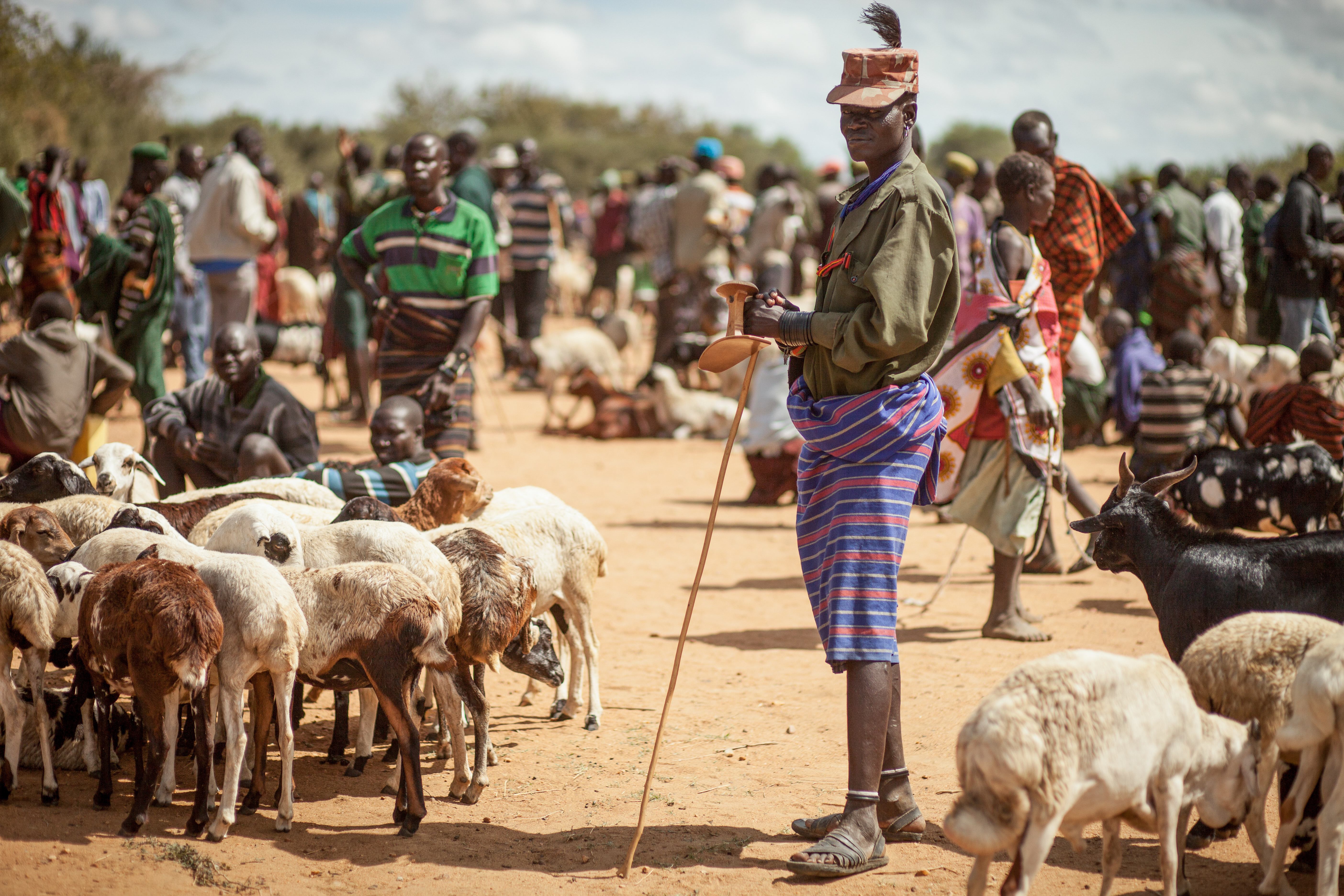 This is an image of "African people at work" from Uganda